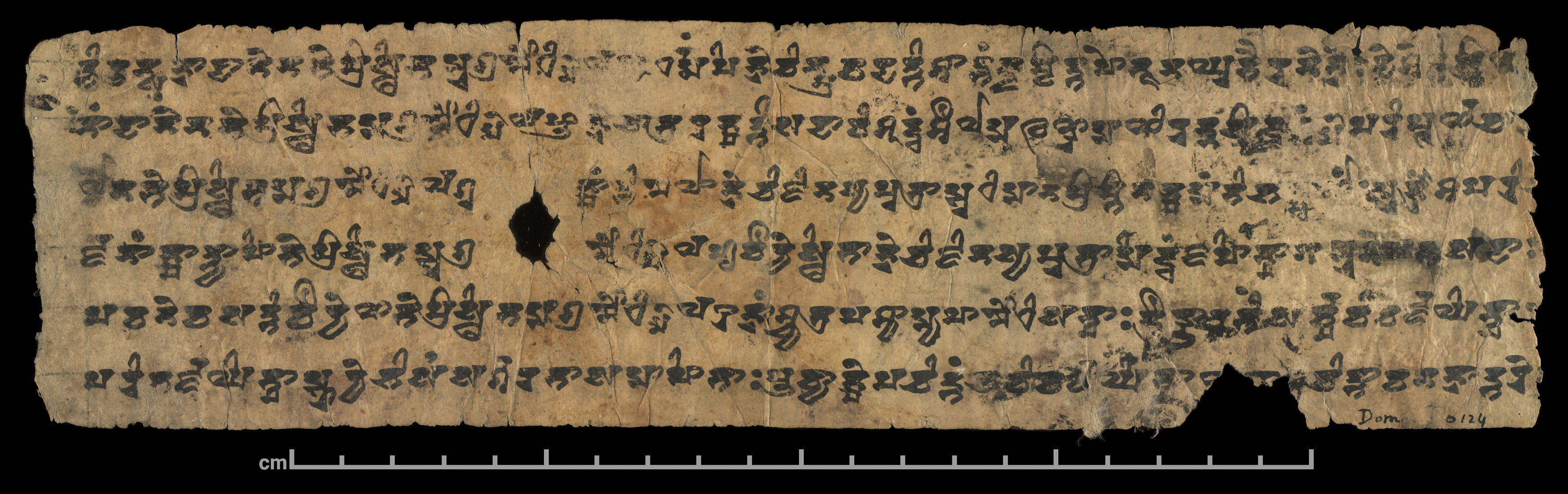 This folio of the popular Saddharmapuṇḍarīkasūtra (Lotus Sutra) is written in Sanskrit in an early form of South Turkestan Brahmi script. The manuscript originally comprised more than 350 folios, each consisting of two thin layers of paper pasted together. Leaves of this same manuscript are preserved in London, Munich and Berlin. Ink on paper.